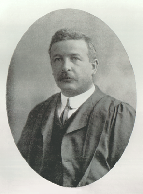 William J. Watson, MA, LLD, Rector of the Royal High School from 1909 to 1914.